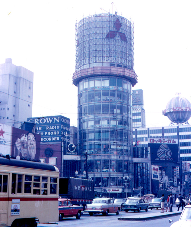 The San-ai Dream Center at the Ginza intersection in Tokyo, with the Mitsubishi symbol at the top. It was built in 1963, I believe that it houses trendy shops and some corporate exhibits. A 1967 view. This photo is "geotagged,"